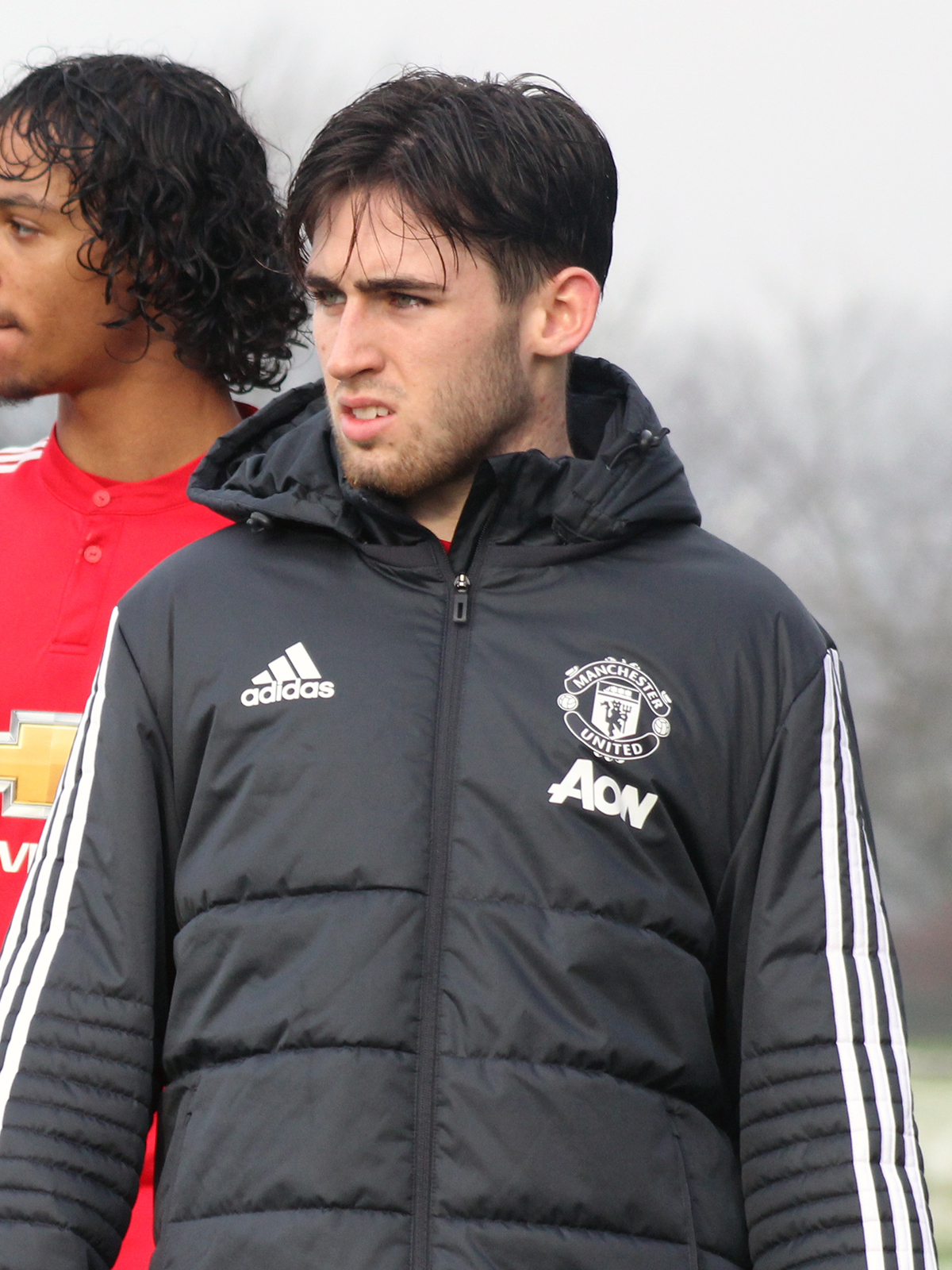 Mason Greenwood (left), D'Mani Bughail-Mellor (centre) and Aidan Barlow (right) of Manchester United after the U18 Premier League match against Liverpool at The Cliff, Salford, England on Saturday 9 December 2017.